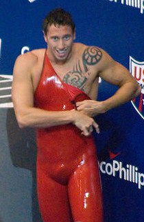 French swimmer Frédérick Bousquet during 2009 US Nationals (Indianapolis)